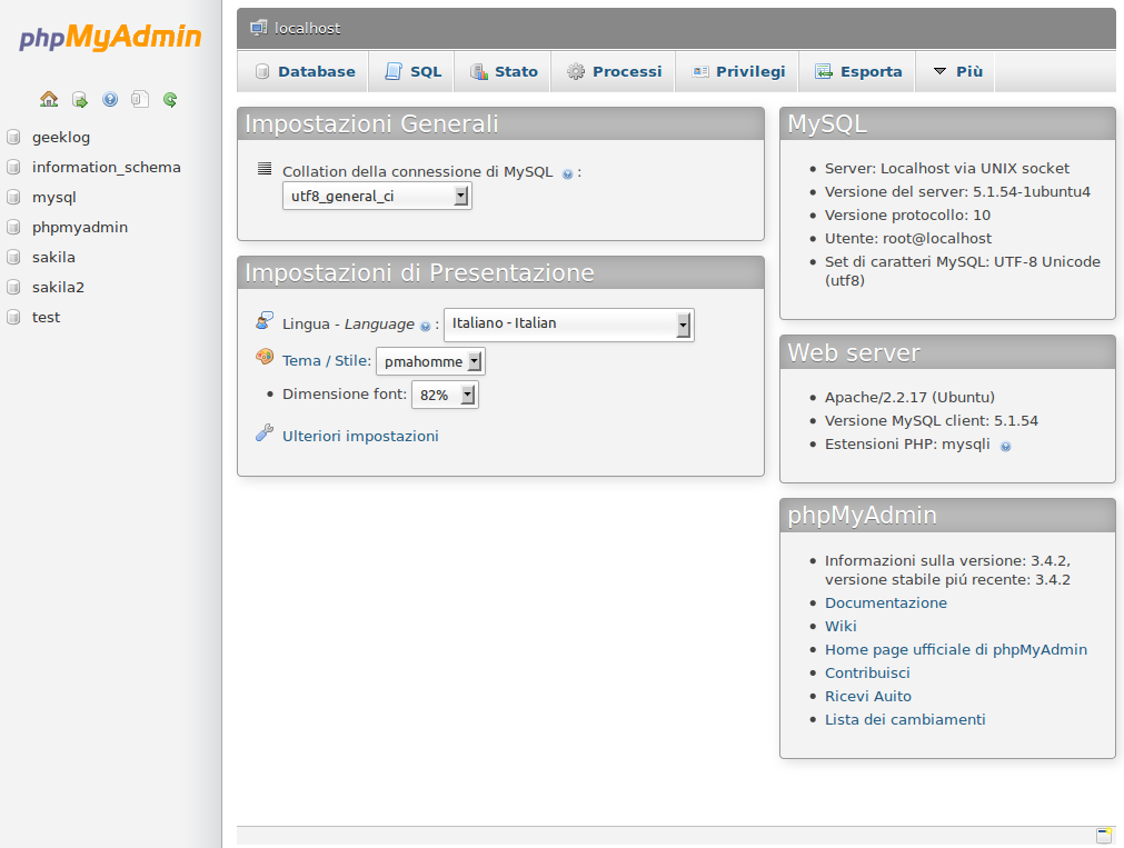 Screenshot of the main page of phpMyAdmin version 3.4.2